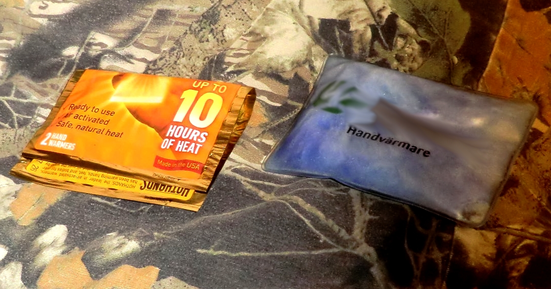 The two types of hand warmers - disposable to the left and reusable to the right.